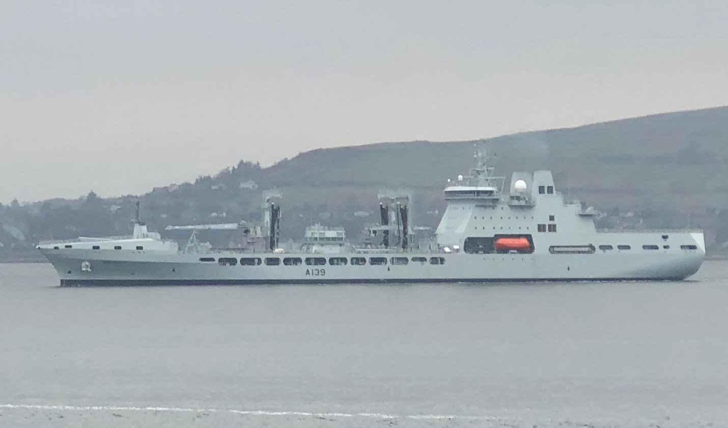 Replenishment tanker RFA Tideforce (A139) heading west down the Firth of Clyde, seen from Gourock.